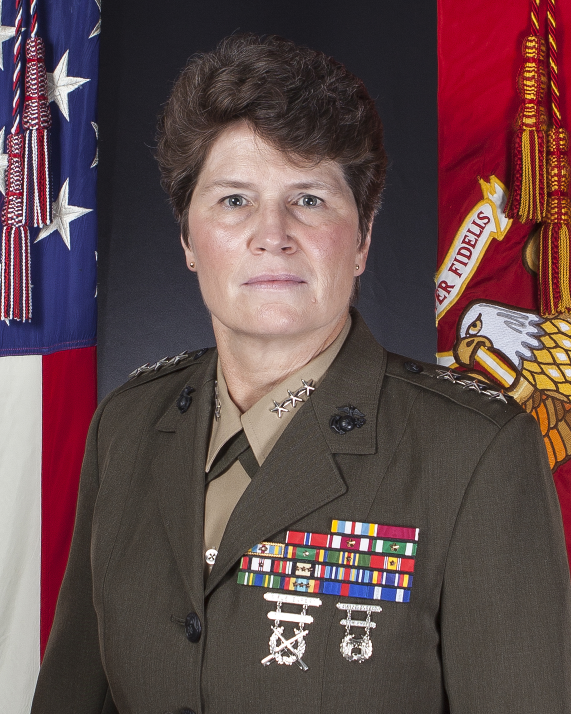 U.S. Marine Corps Lt. Gen. Loretta Reynolds, Deputy Commandant of Information, takes an official command portrait at the Pentagon, Washington D.C., July 9th, 2018.